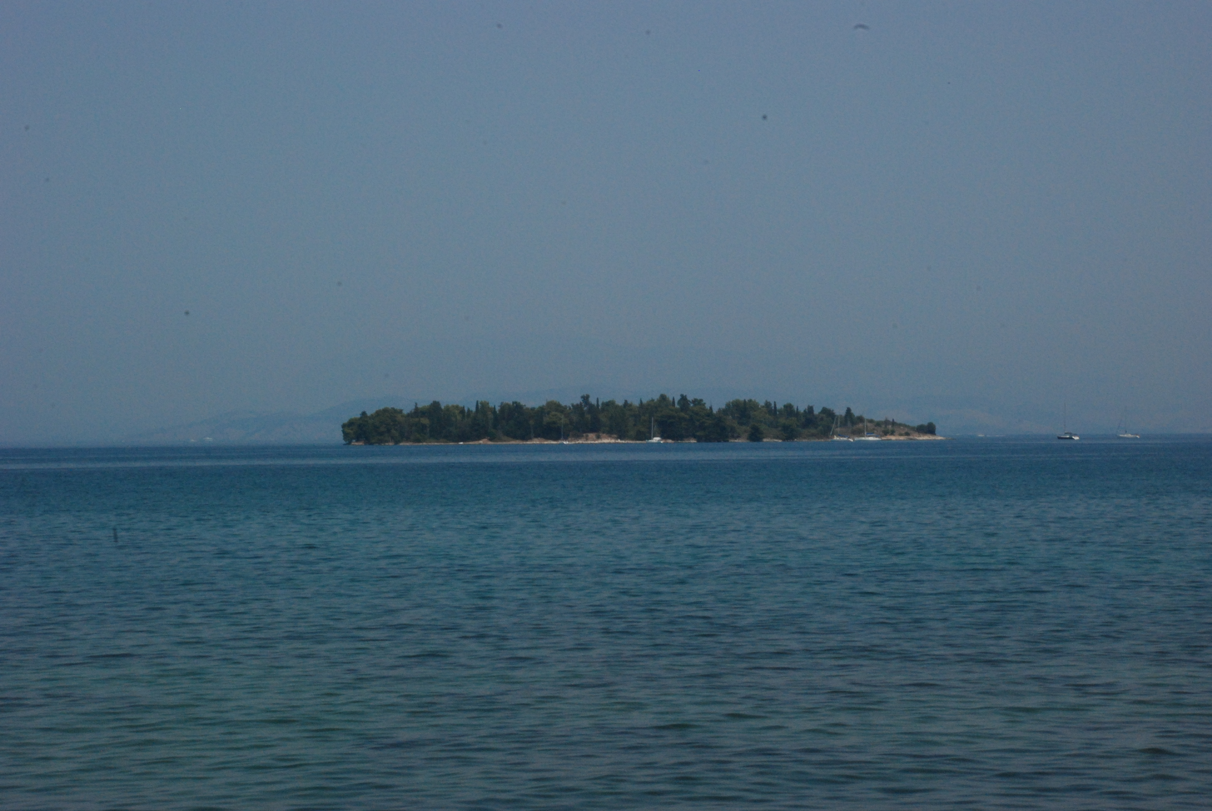 Islet of Lazareto, close to Korfu, Ionian Islands, Greece